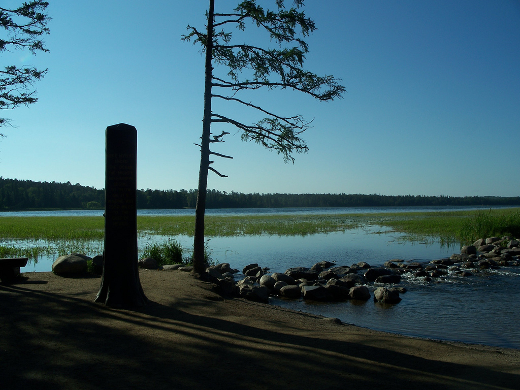 Headwaters of the Mississippi River at Lake Itasca in Minnesota.